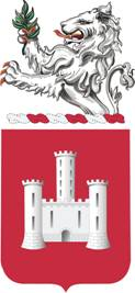 113th Engineer Battalion coat of arms